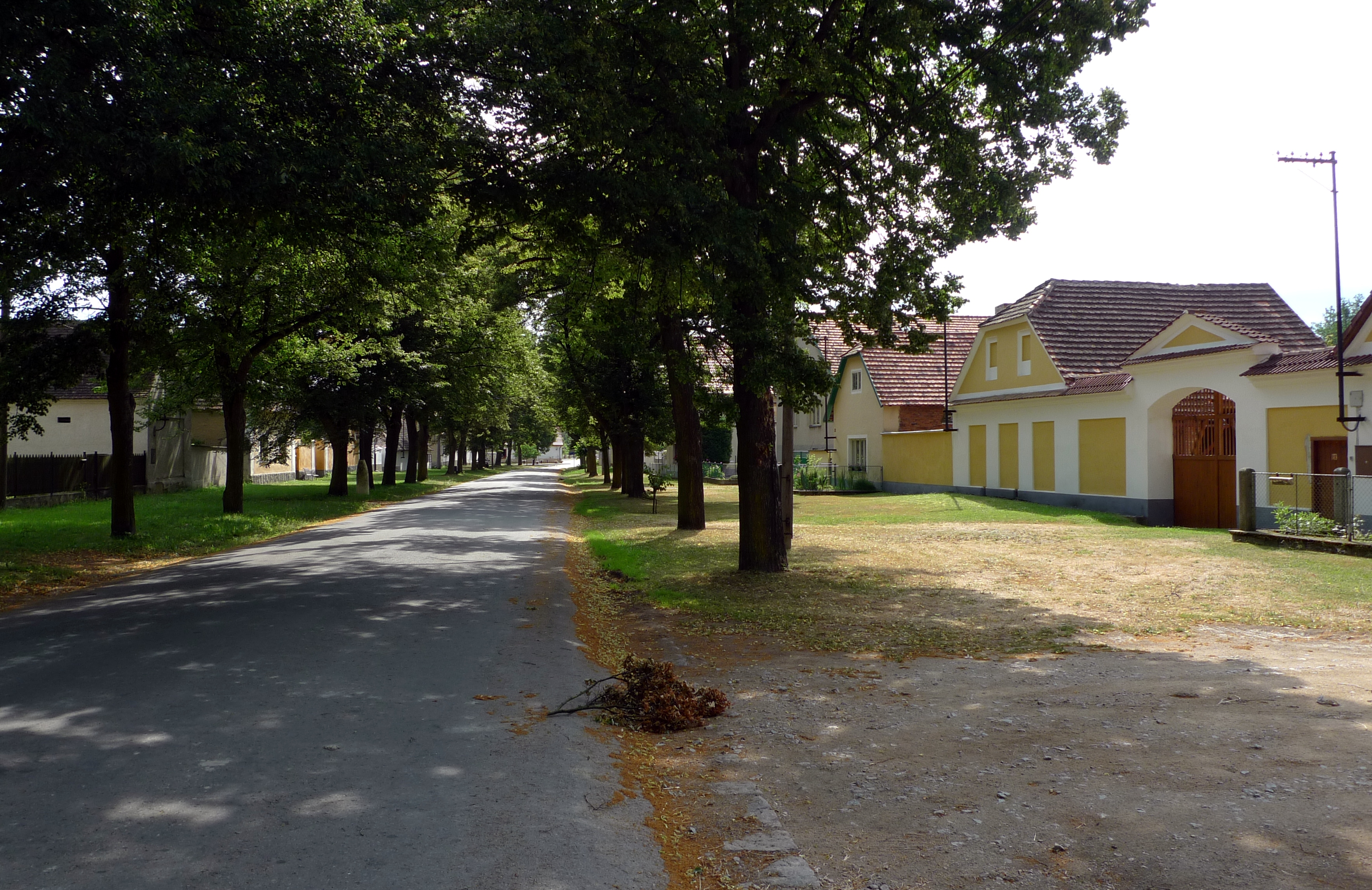 Czech village of Buzice in southern Bohemia, Czech Republic